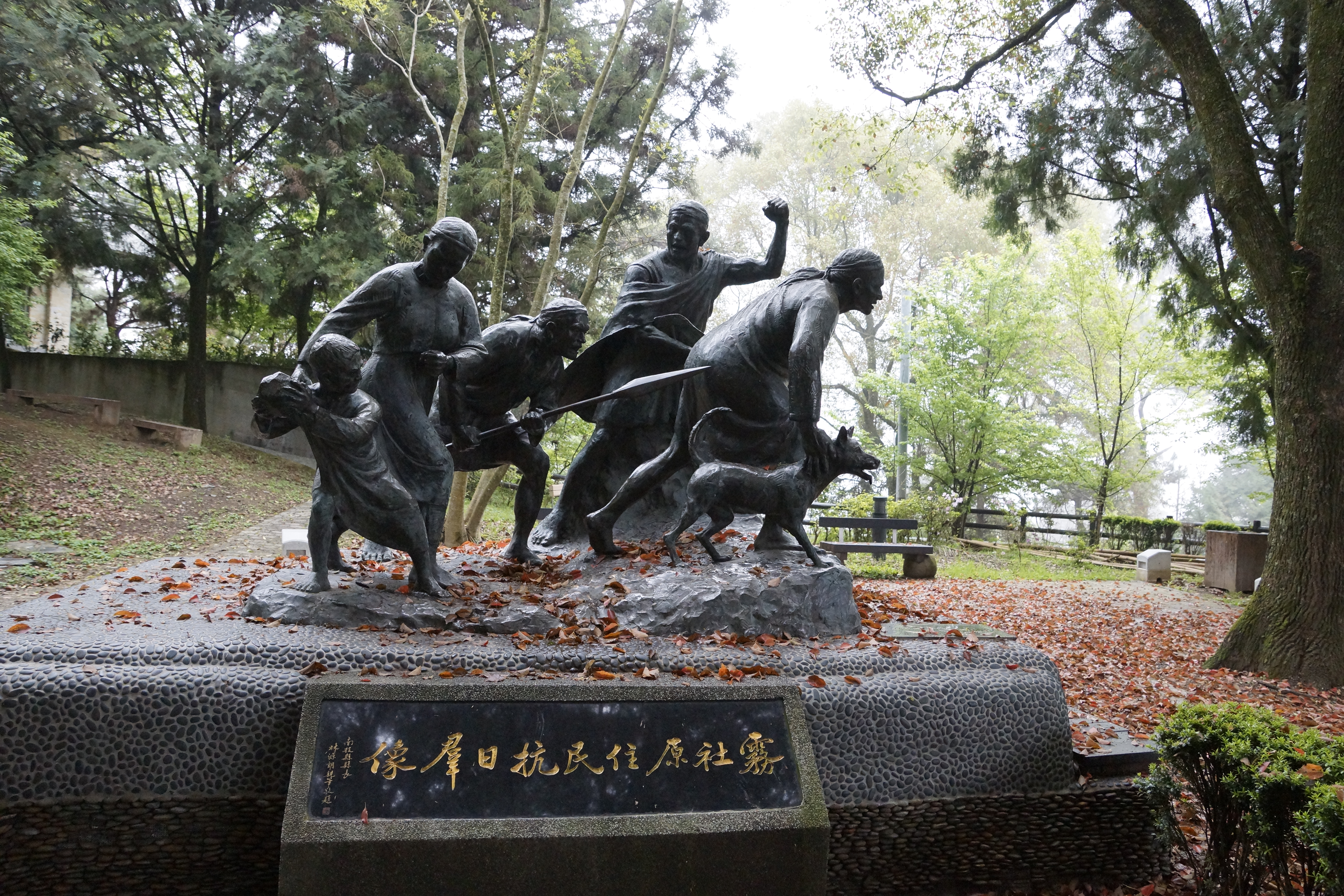 Wushe Incident Memorial Statue.中文（中国大陆）: 雾社事件纪念雕像。